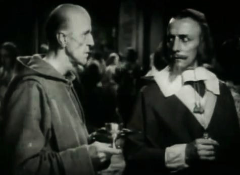 Lon Poff (left) and Nigel De Brulier in The Iron Mask (1929) - cropped screenshot